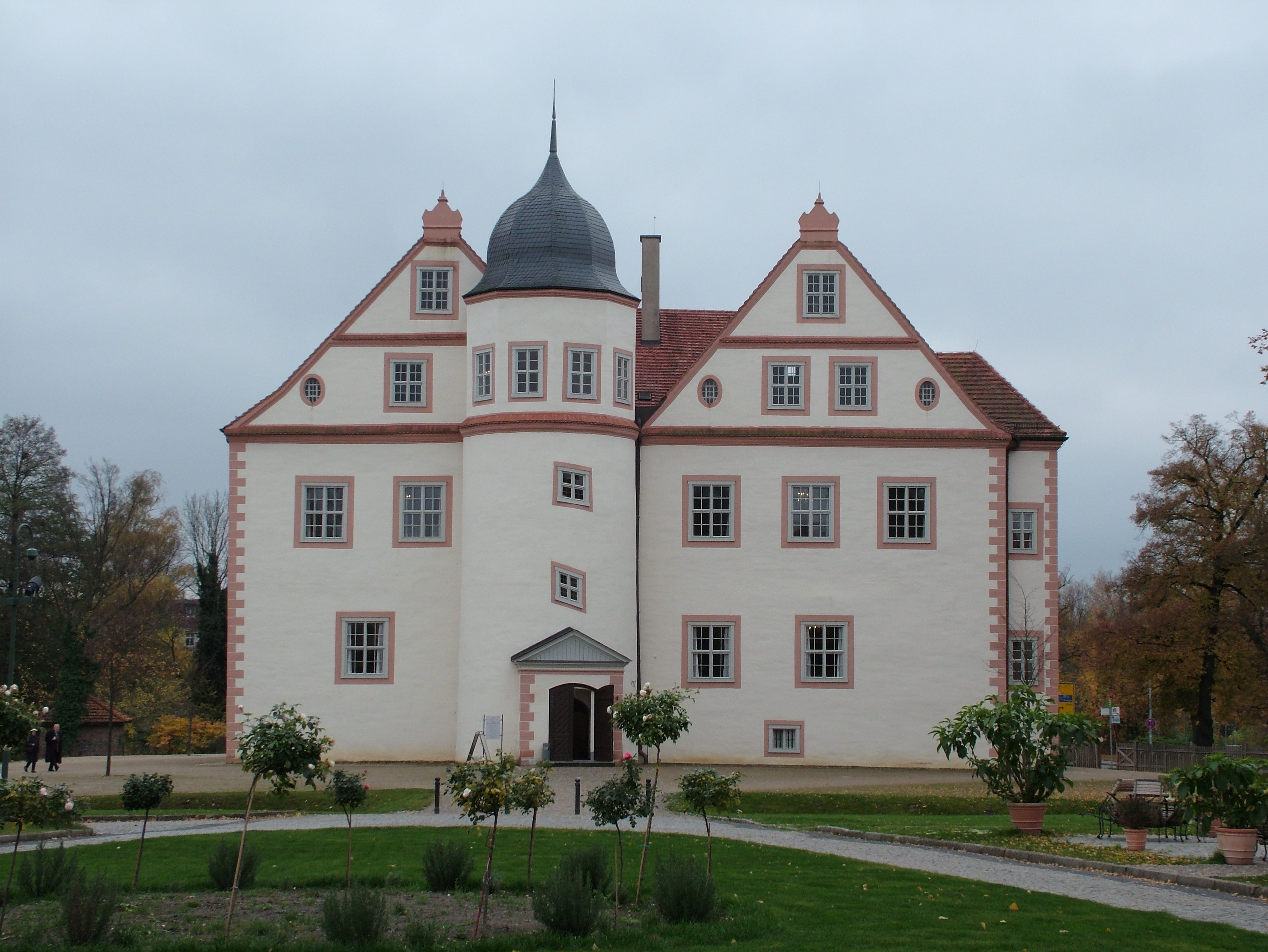 The Königs Wusterhausen Hunting Lodge in Brandenburg, Germany, south-east of Berlin.